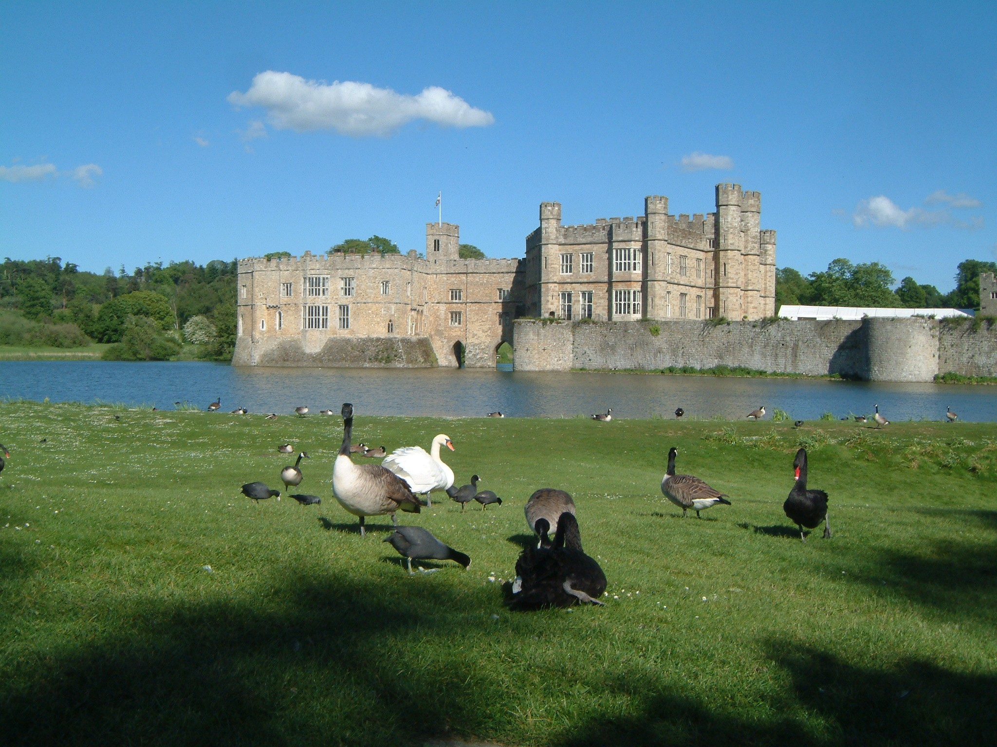 Leeds Castle with waterfowl